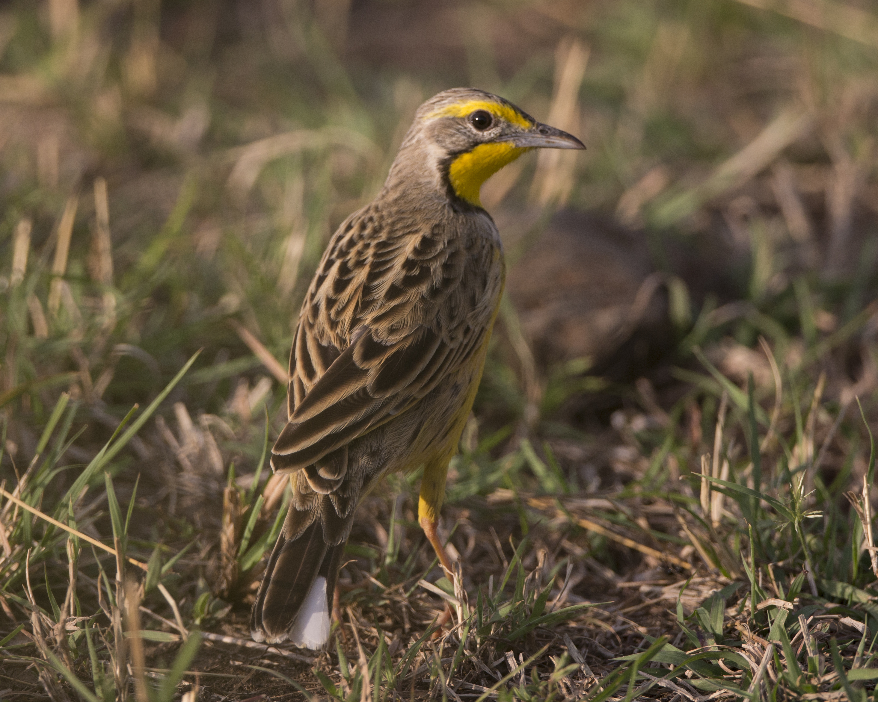 Yellow-throated Longclaw Macronyx croceus Macronyx croceus croceus 5th. September 2013 Masai Mara, Kenya CF2P9955